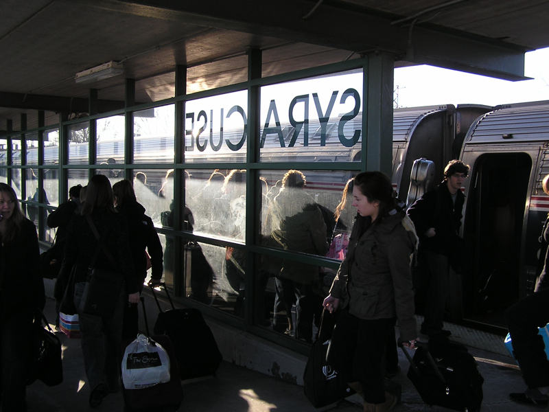 Syracuse, New York Amtrak station, February 2009.